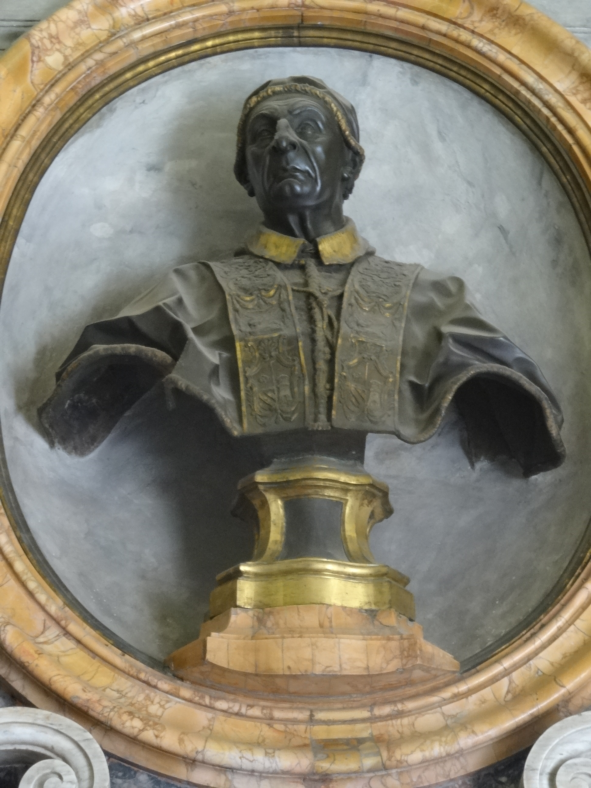 Sacristy and Treasury Museum of Saint Peter's Basilica. Bronze bust of Benedict XIII